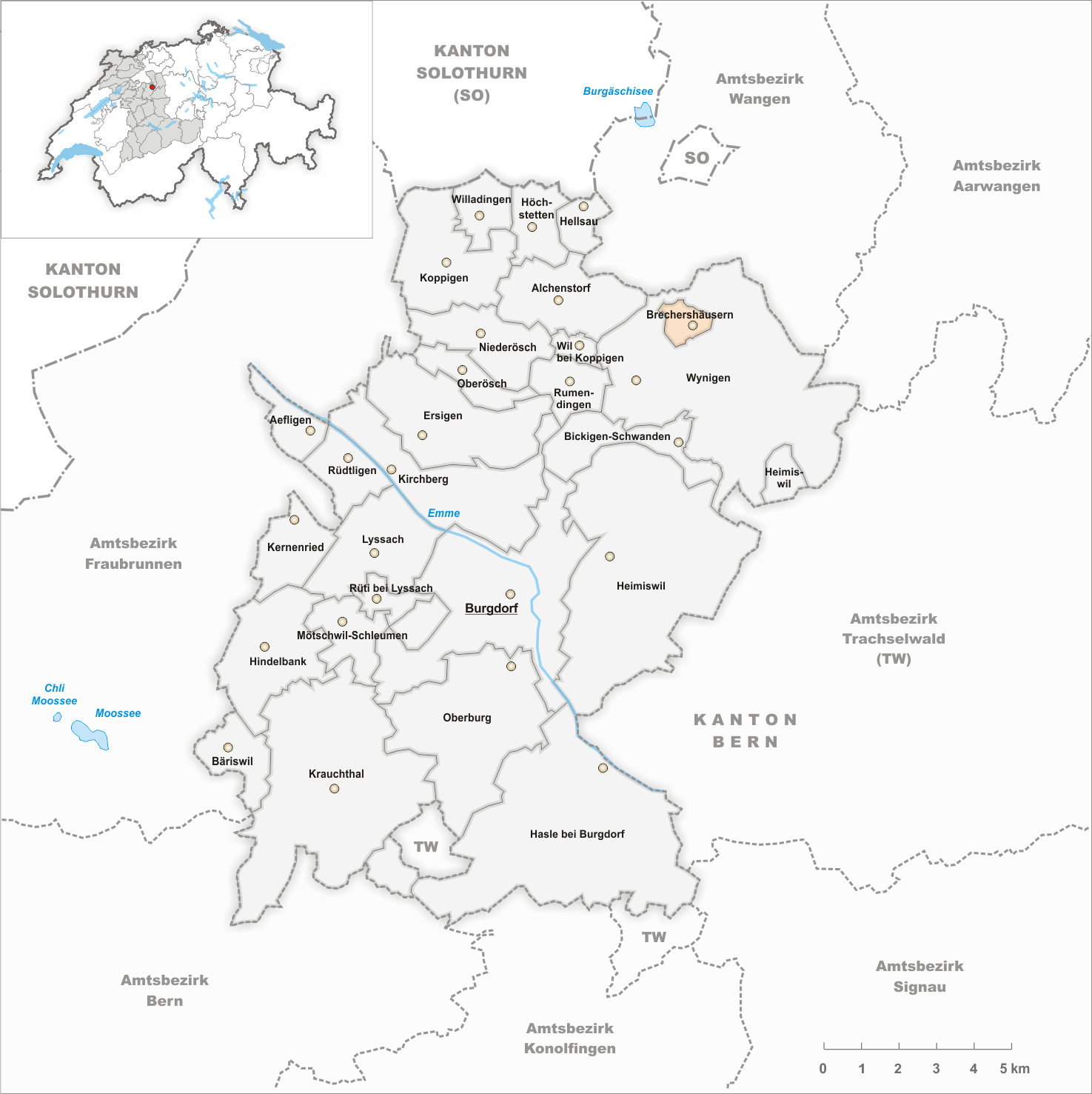 Municipality Brechershäusern